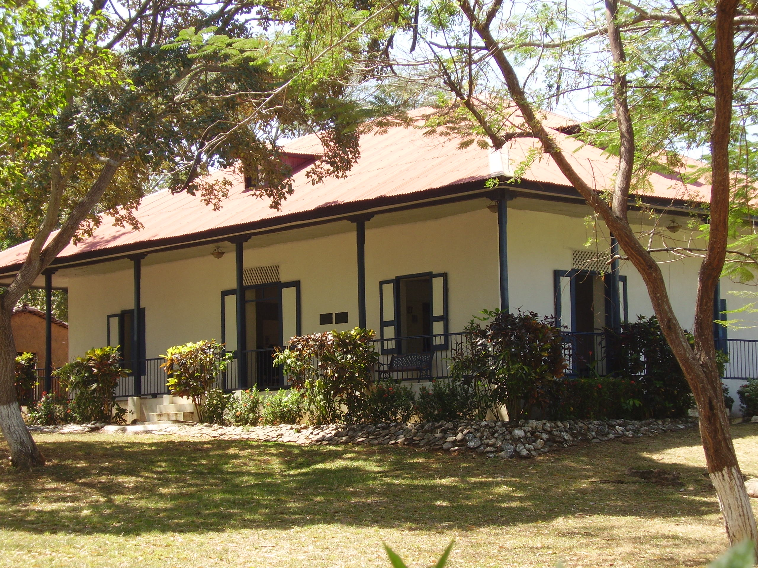 Country ranch from President Belisario Porras in Panama.